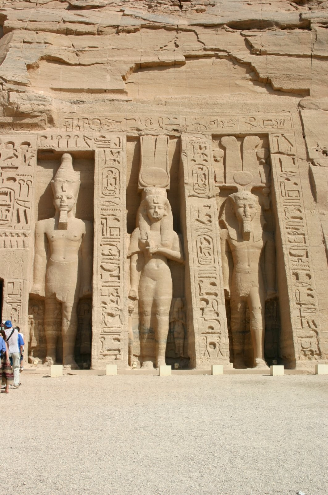 Detail Right side of Nefertiri Temple @ Abu Simbel